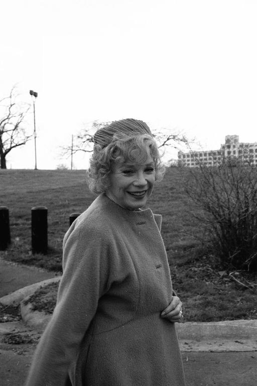 From the movie set...Baltimore M.D. " Guarding Tess " April of 1993 Copyright John Mathew Smith 2001